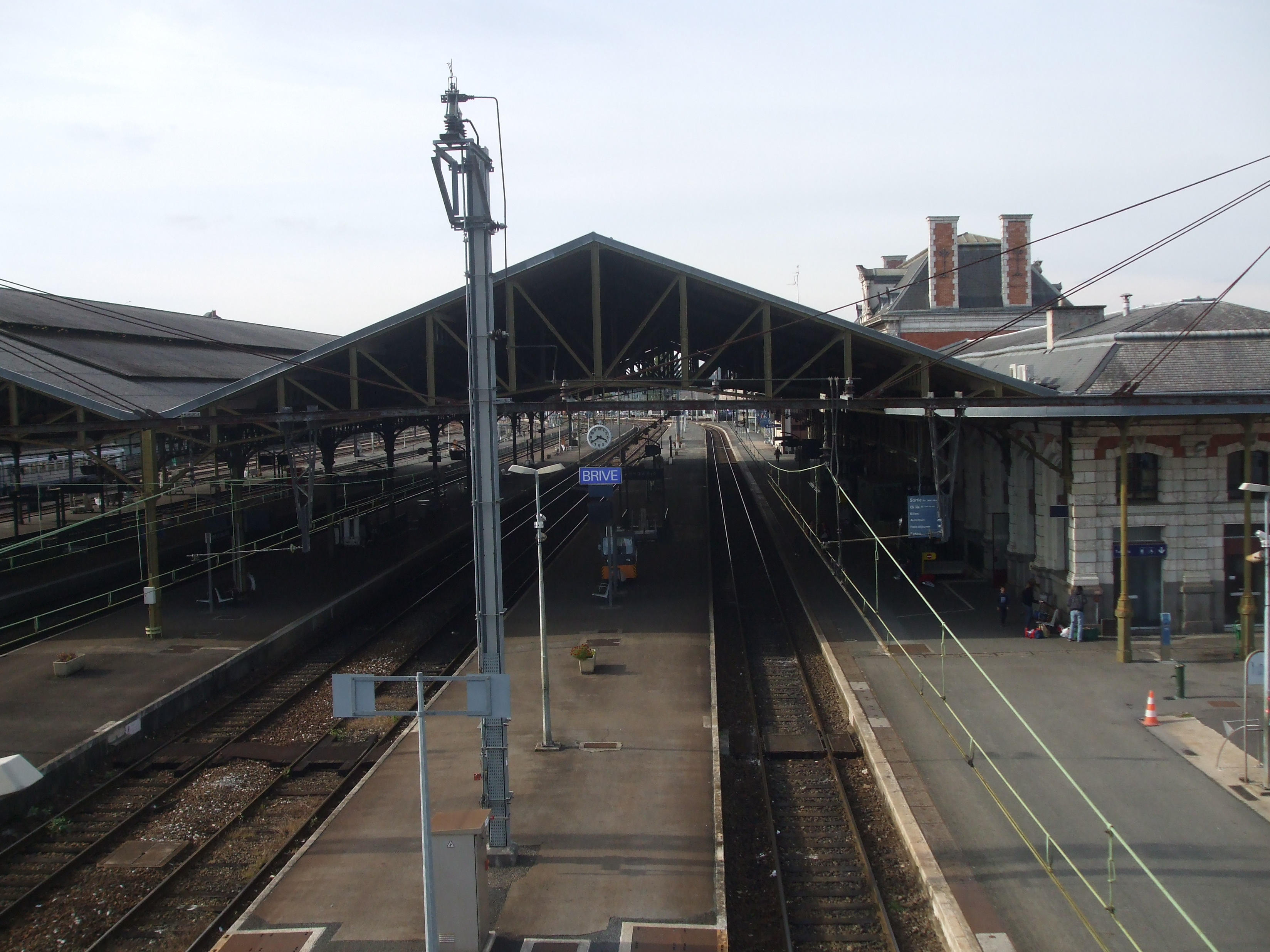 Platforms, tracks and canopy of Brive la Gaillarde station, Corrèze, Limousin, France